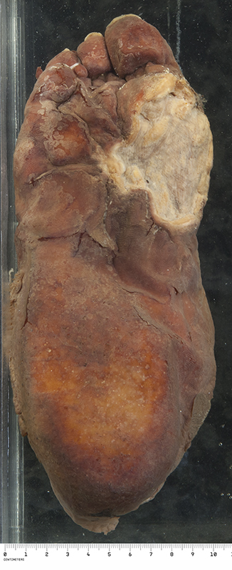 Museum specimen of Marjolin's' ulcer on the sole of a foot. This 49 year old man had his right foot crushed by a log at the age of 17 years. Amputation was advised then, but refused and the foot eventually healed after 18 months of dressings. Four years ago an ulcer appeared in the scar on the sole of the foot, and progressively enlarged. It was never painful. Biopsy showed a well differentiated squamous carcinoma. Lymph nodes in the groin were also biopsied, these showed reactive changes only.